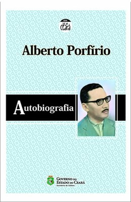 Cover of the Autobiography by the Brazilian poet Alberto Porfirio da Silva; launched by SECULT.